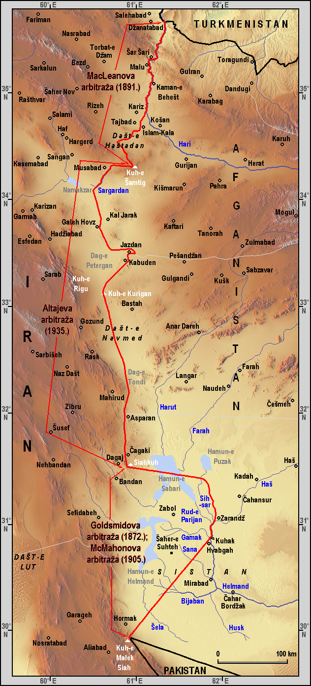 Iran-Afghan border with Croatian descriptionHrvatski: Iransko-afganistanska granica